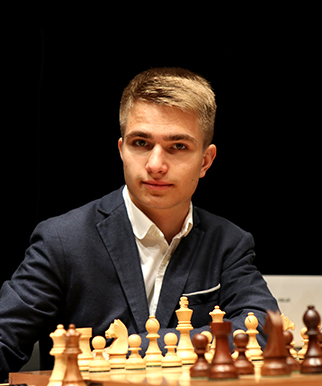 Alexey Sarana at Superfinal of the Russian Chess Championship, Satka, 2018